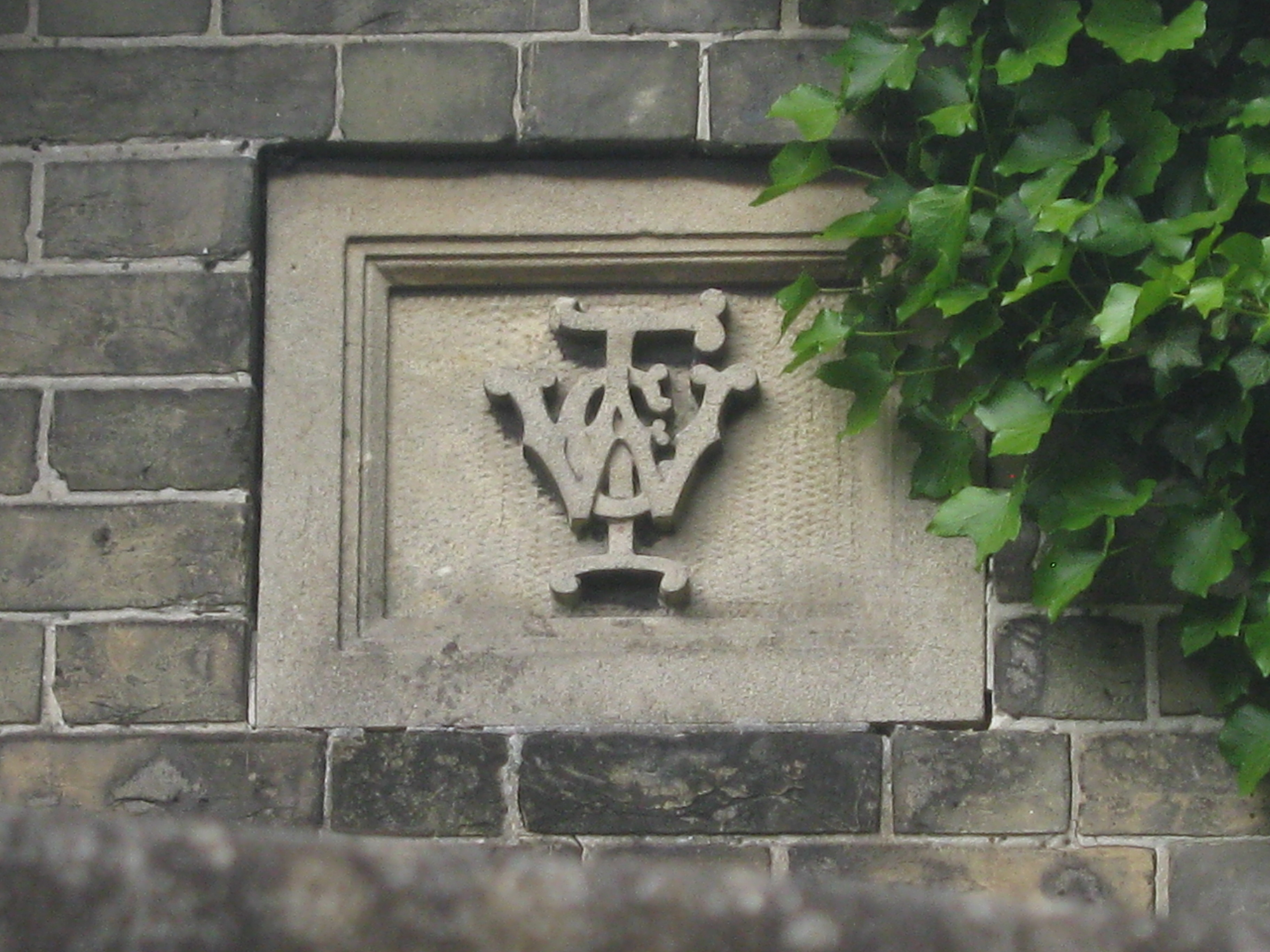 This monogram of William Corbin Finch is placed in the south gable of "The Lodge" at 32 Wilton Road, Salisbury. Finch was a doctor who owned Fisherton House Asylum This building was part of that hospital.